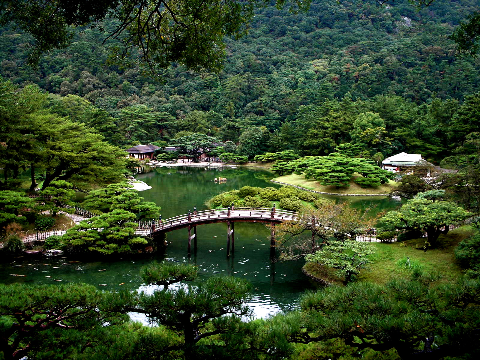 The view of one of the bridges in Ritsurin Garden, Takamatsu City, Kagawa Prefecture, Japan.